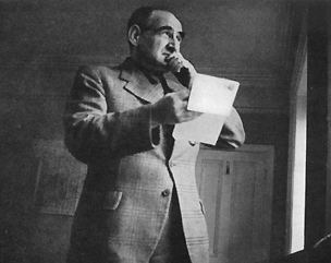 The mentalist Frederick Marion.